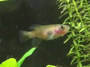 Adult female Nothobranchius rachovii in captivity